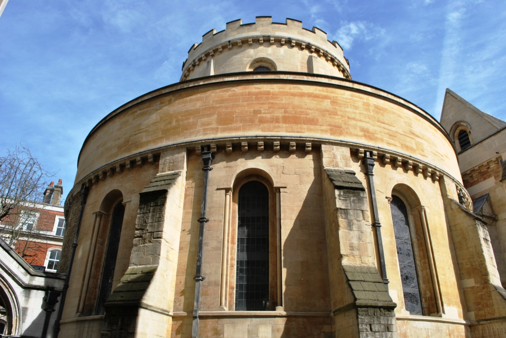 Temple Church (st Mary's)